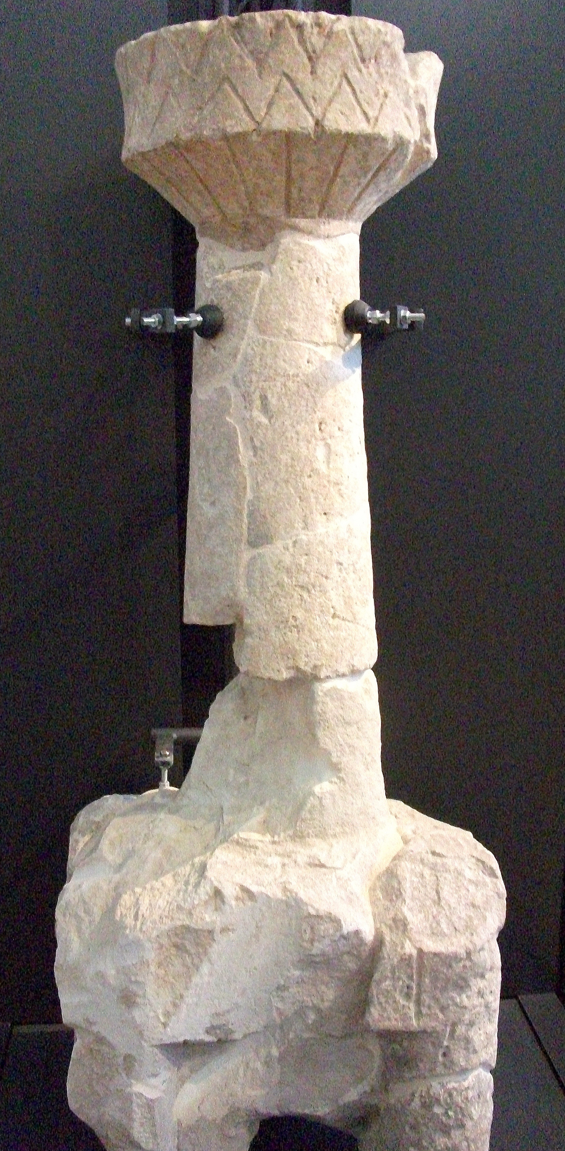 Sculpture, Giants of Monte Prama, nuraghe models Sardinia, Italy, Nuragic civilization,archaeology, bronze age, sea peoples,prehistory